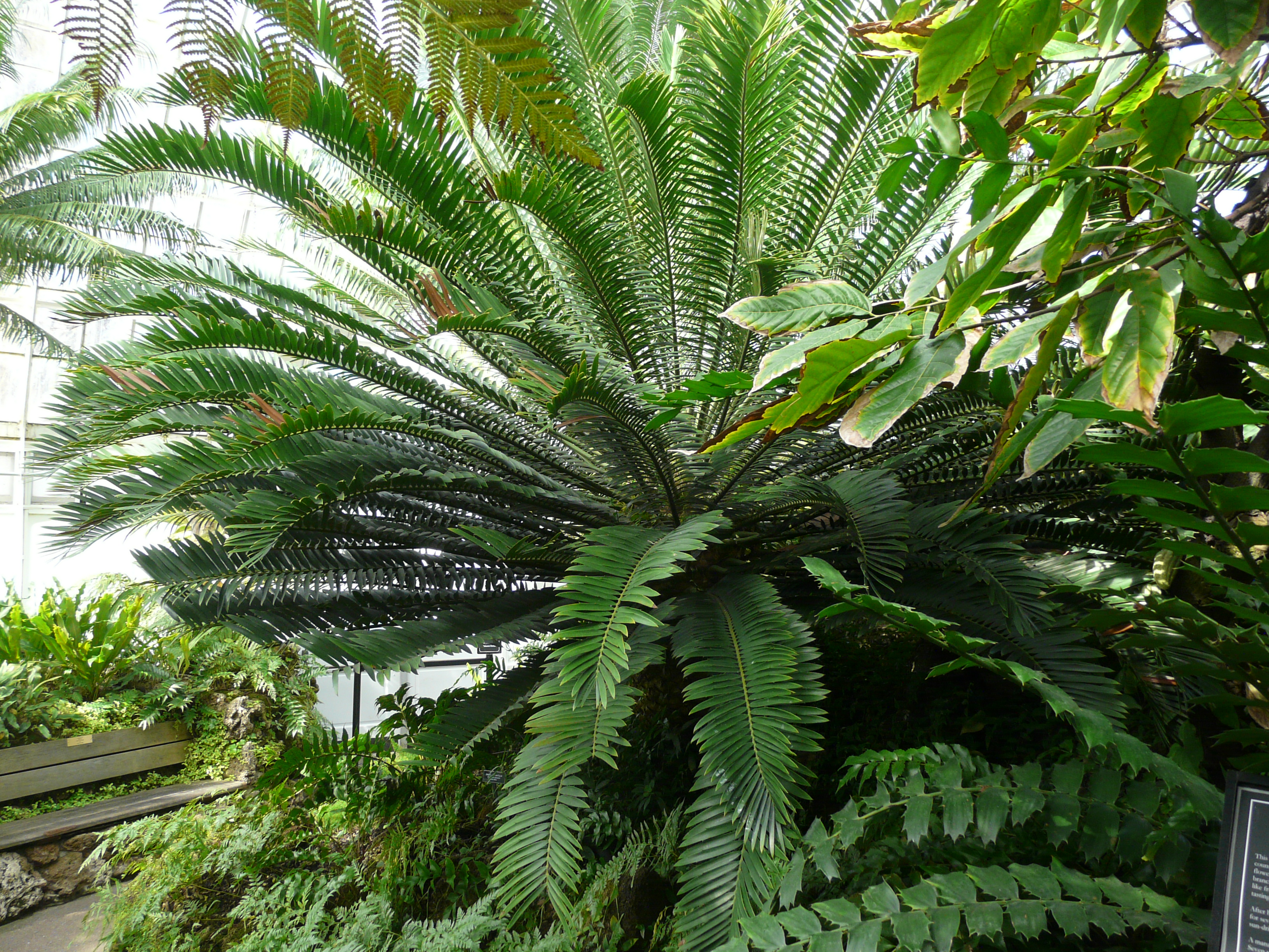 Phipps Conservatory